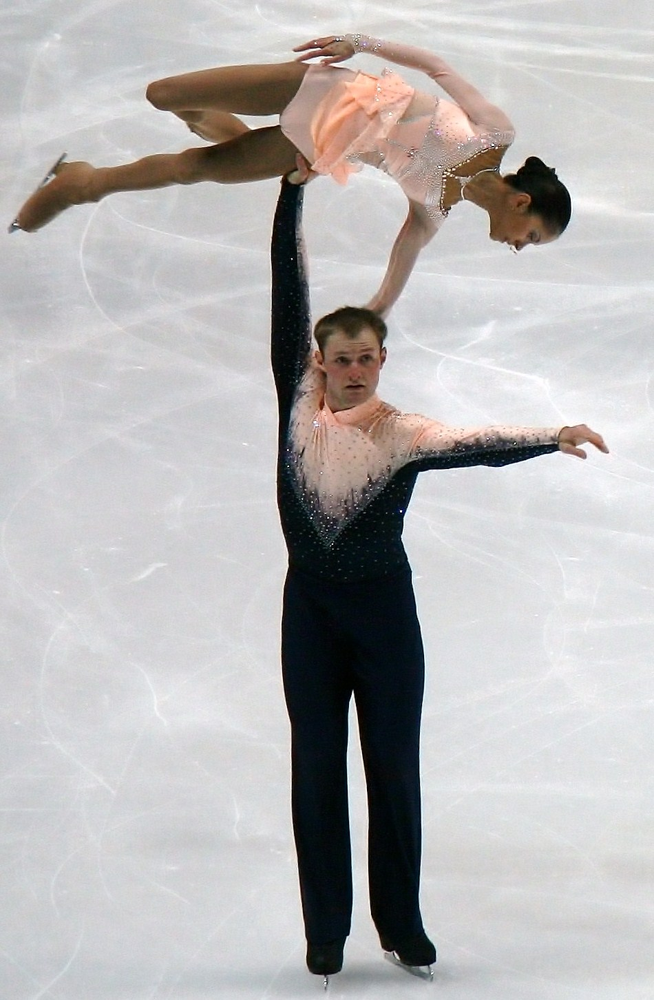 Vera Bazarova and Yuri Larionov at the 2011 World Figure Skating Championships